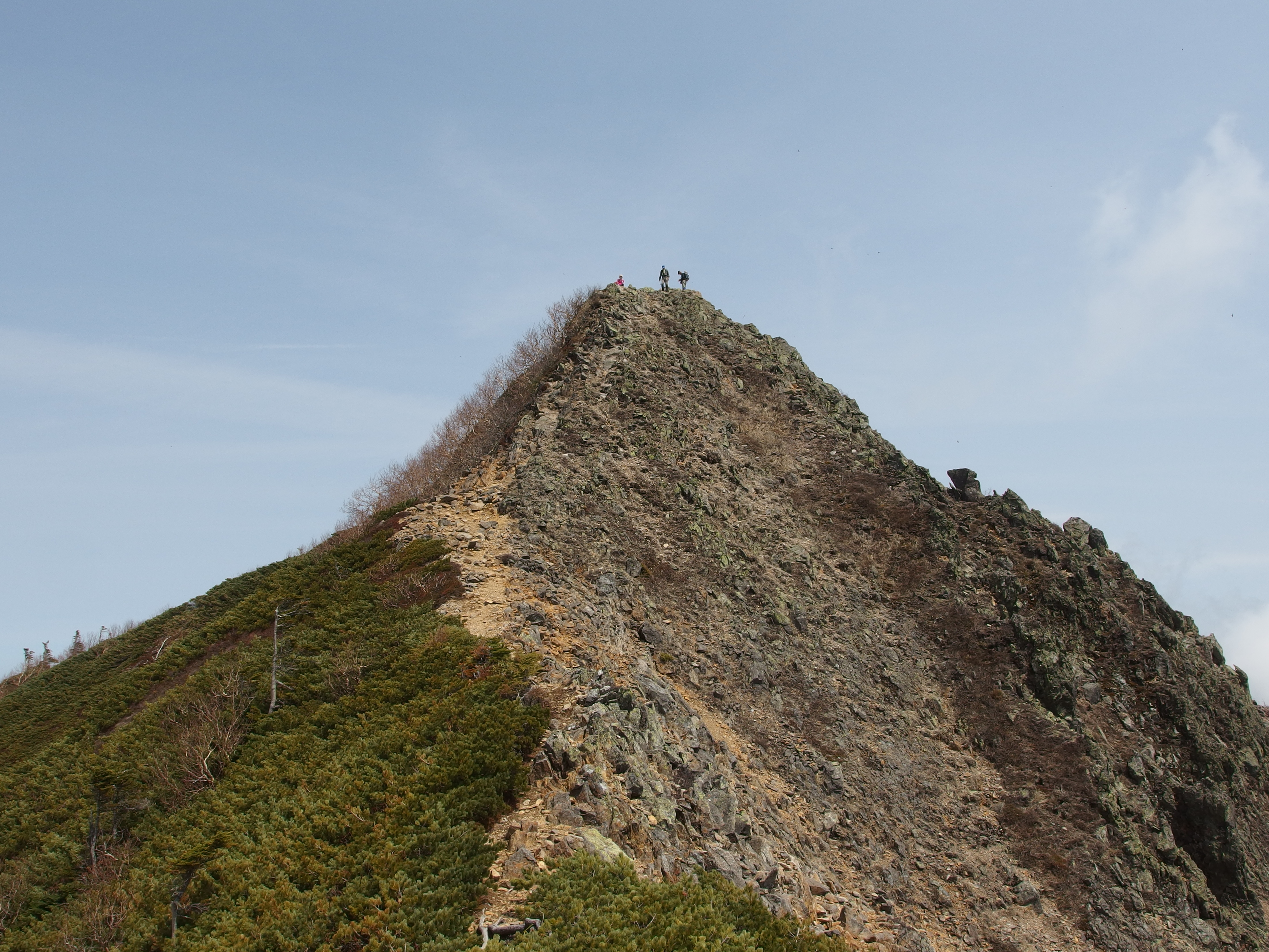 Japan: summit of mount Nyōhō (Nikkō city, Tochigi prefecture).